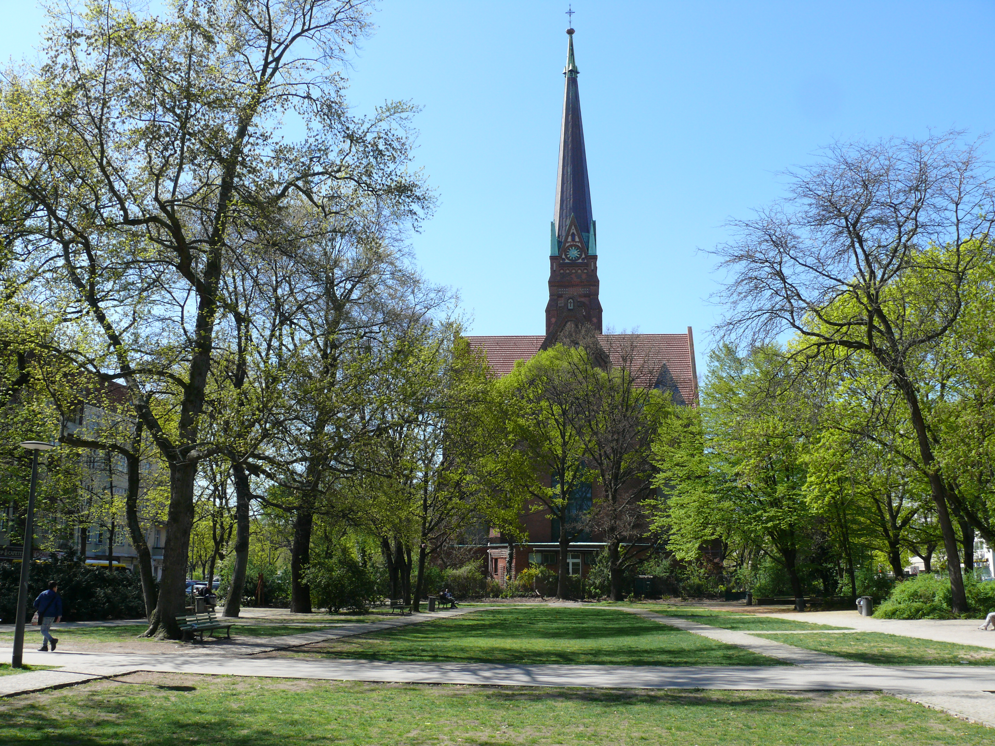 Berlin Moabit Kleiner Tiergarten